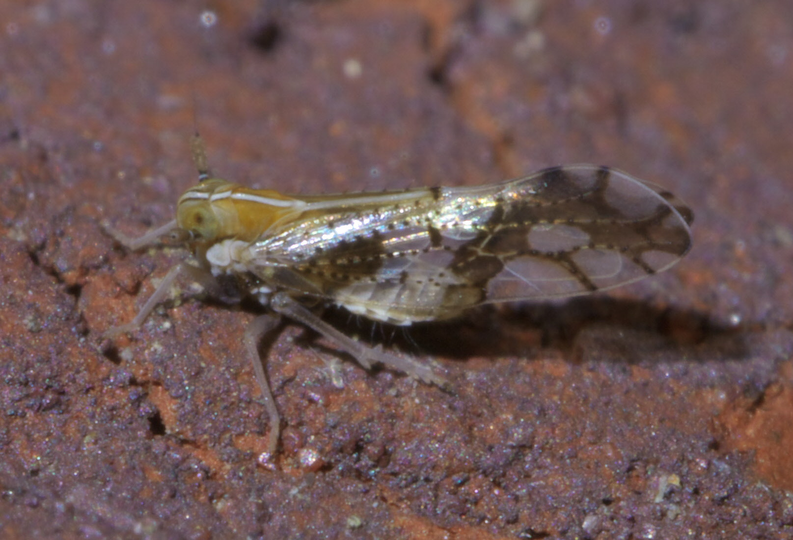 Liburniella ornata, Family: Delphacid Planthoppers, Size: 3.9 mm, ID Confidence: 93